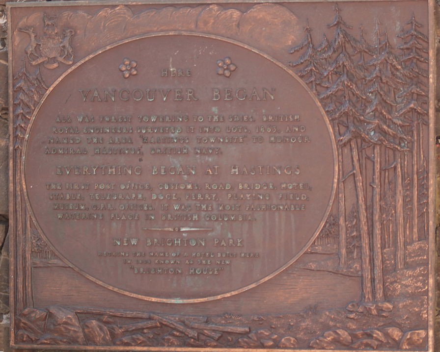 Plaque taken at New Brighton Park